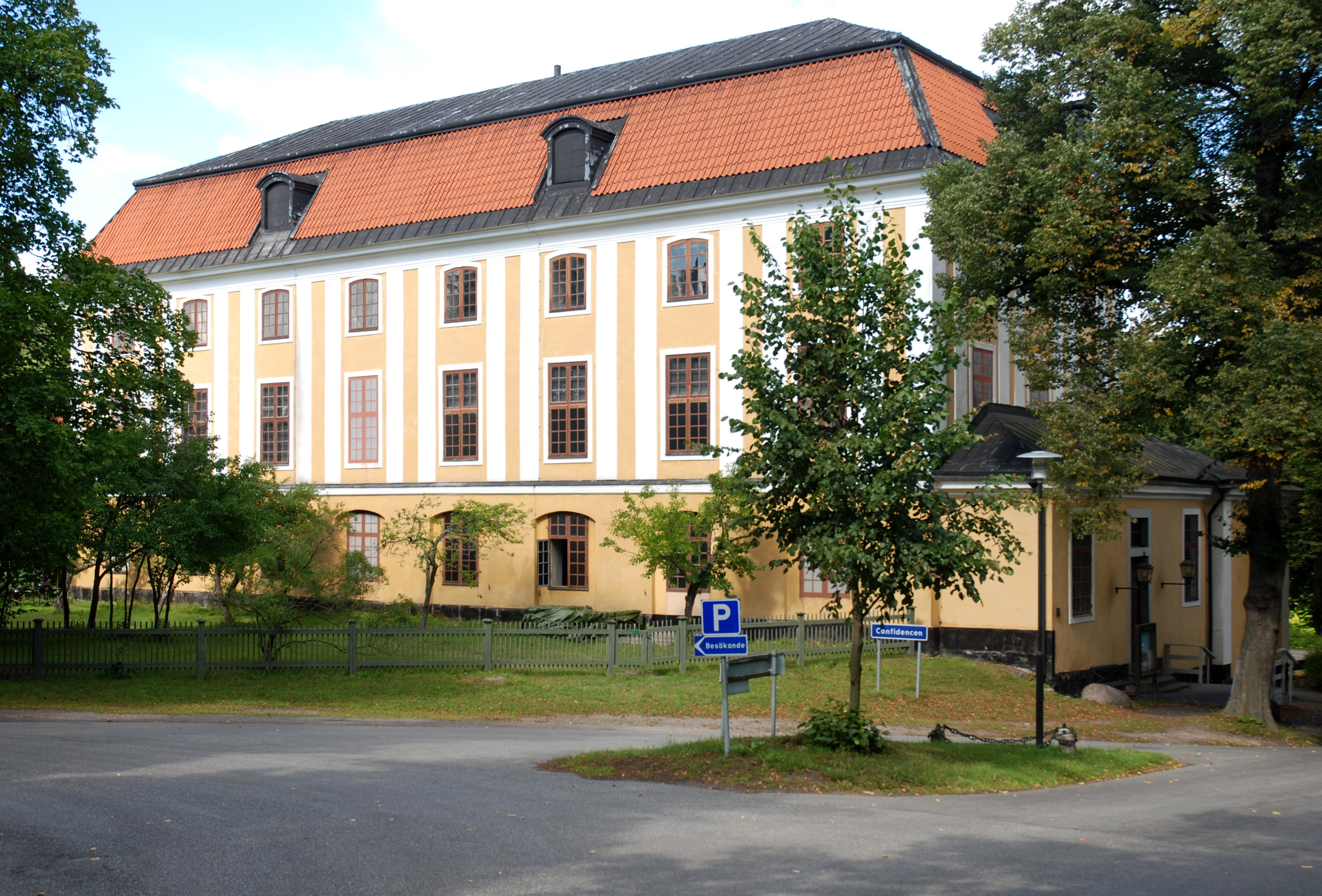 Operan Confdencen, Ulriksdals slott